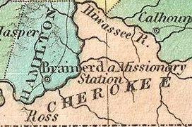 A beautiful example of Finley's important 1827 map of Tennessee. Depicts the state with moderate detail in Finley's classic minimalist style. Shows river ways, roads, canals, and some topographical features. Offers color coding at the county level. Title and scale in upper left quadrant. Finley's map of Tennessee is particularly interesting and important due to its portrayal of the rapidly changing American Indian situation in the south eastern part of the state. In 1827 a substantial part of southeastern Tennessee and northwestern Georgia was a confined territory assigned to the Lower Creek and Cherokee nations. Finley's map details the borders of this country as defined by the Tennessee and Hiwasssee Rivers. Also notes American Indian villages and missionary stations, including the Brainerd Mission, within and adjacent to the Cherokee territory. Just four years after this map was made the Creek and Cherokee would forcibly relocated westward in the infamous Trail of Tears. Engraved by Young and Delleker for the 1827 edition of Anthony Finley's General Atlas .